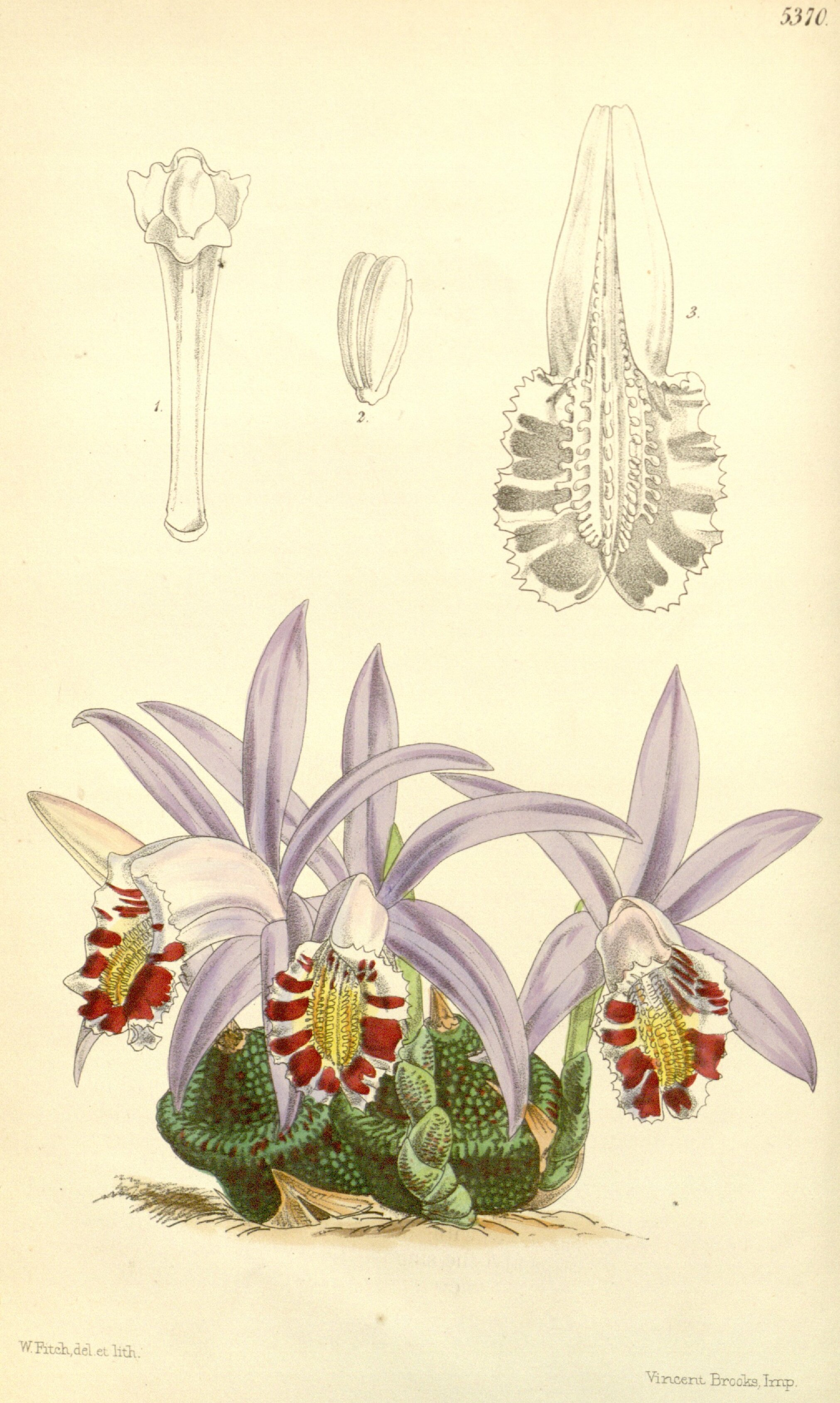 Illustration of Pleione × lagenaria (as syn. Coelogyne lagenaria)